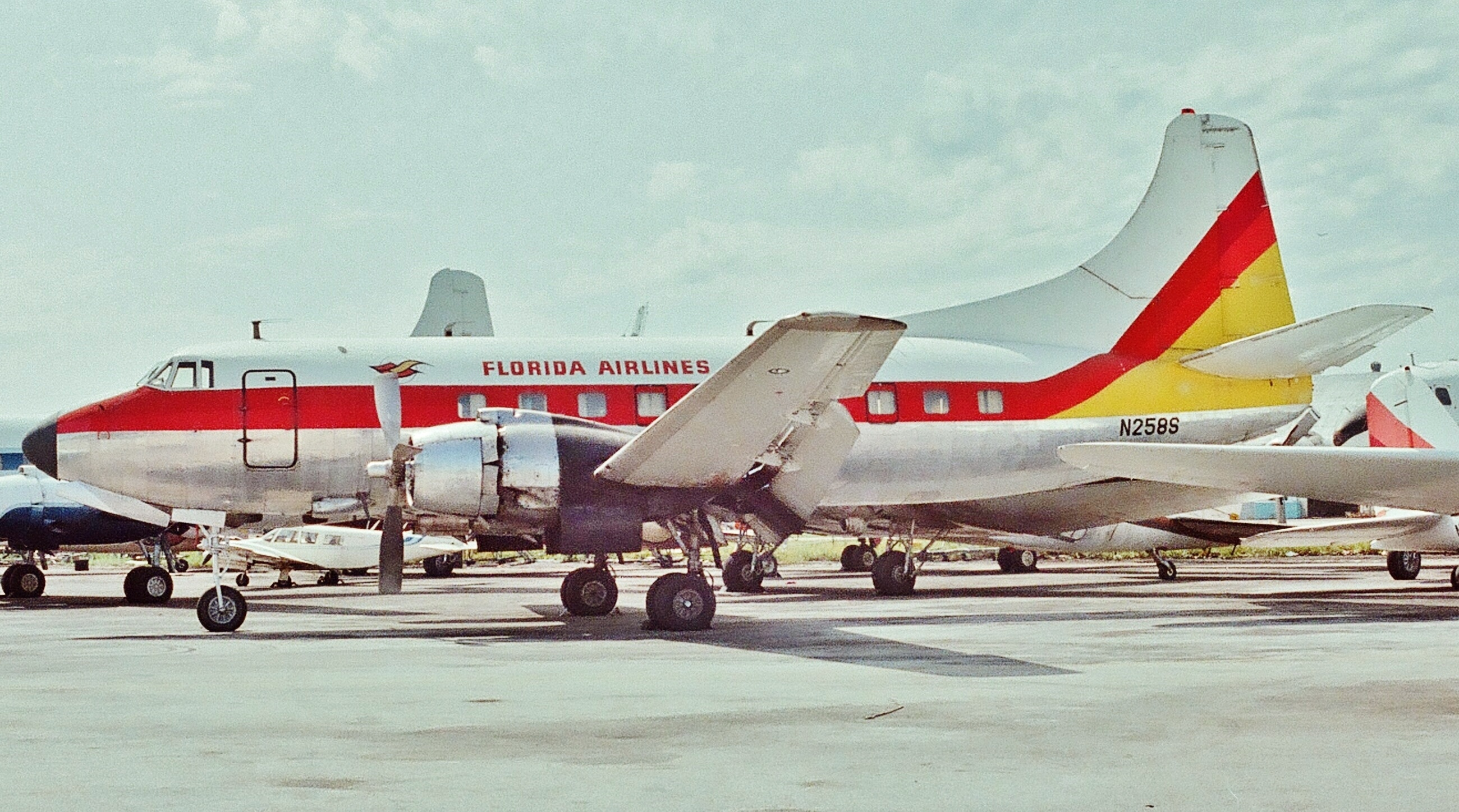 Martin 404 N258S Air Florida at MIA 16.10.1982. This aircraft was broken up at Miami in 1988.